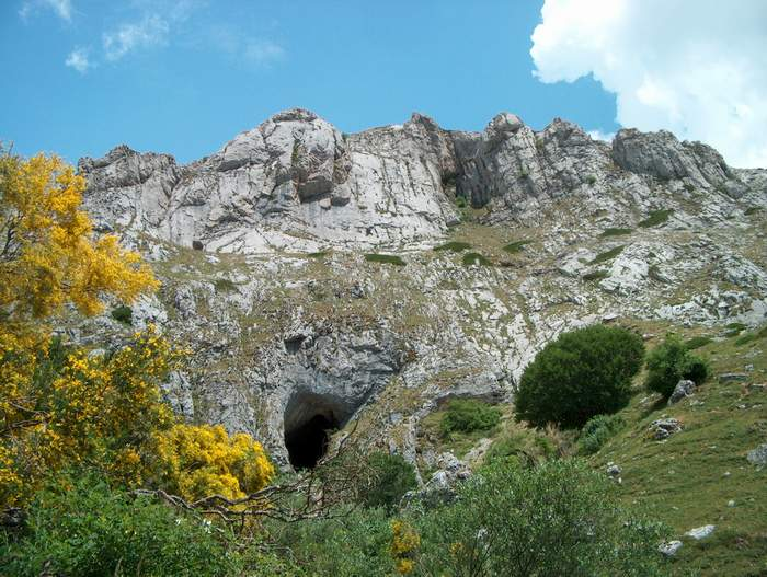 Outside the Cave Coble